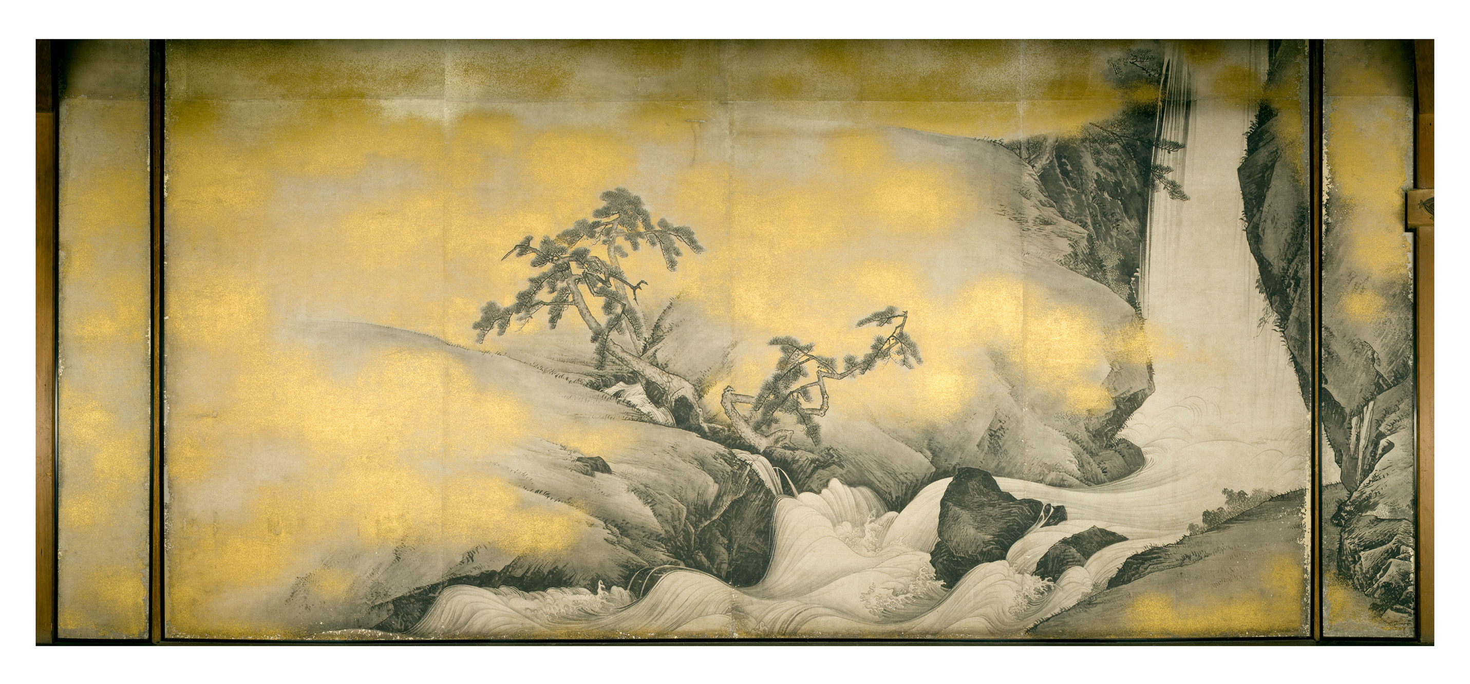 Landscape with Waterfall by Maruyama Okyo, Kotohiragu Shrine, Kotohira, Kagawa, Japan